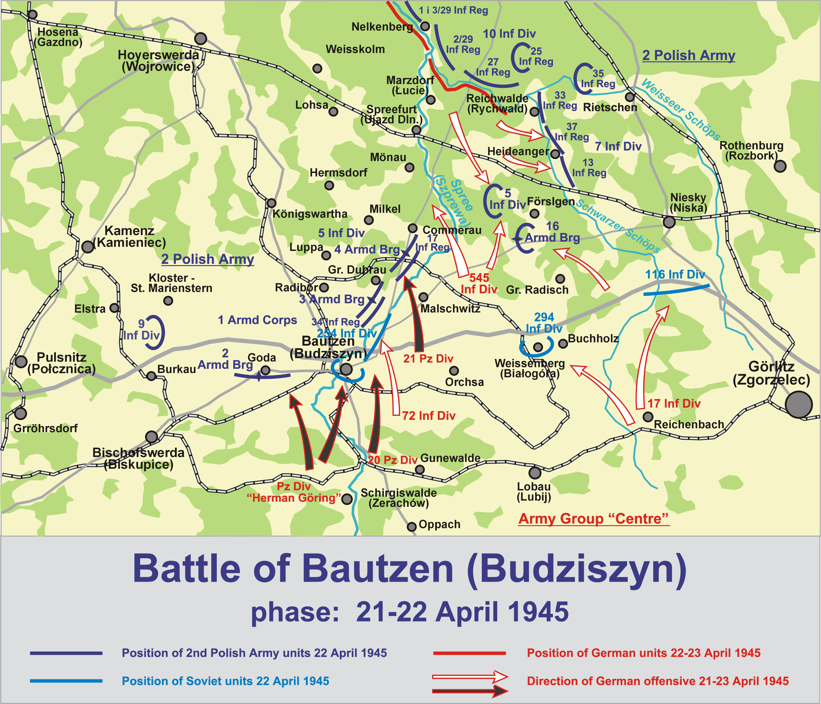 Map of the Battle of Bautzen, phase of 23-28 April 1945.